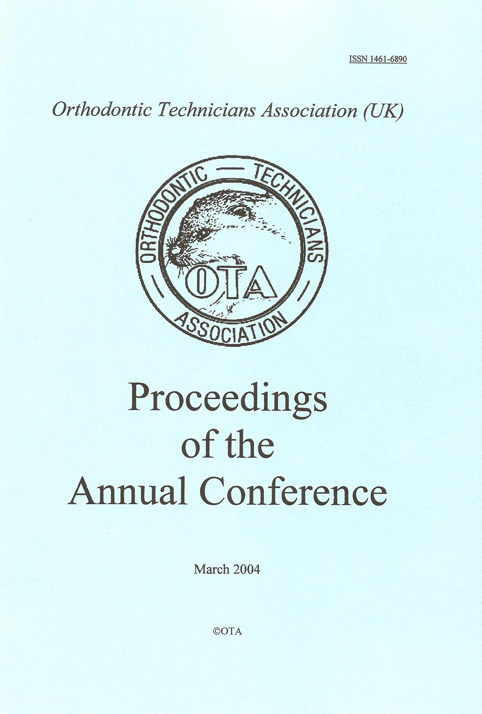 The front cover of the 2004 edition of the Proceedings of the Orthodontic Technicians Association Annual Conference